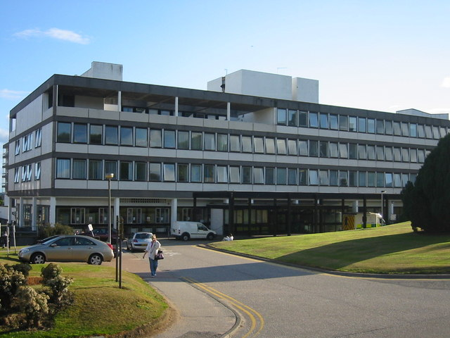 Aberdeen Royal Infirmary - Ambulance Entrance; mainly surgical wards in this block.